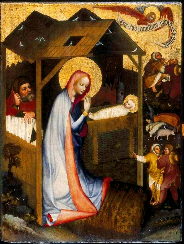 Nativity